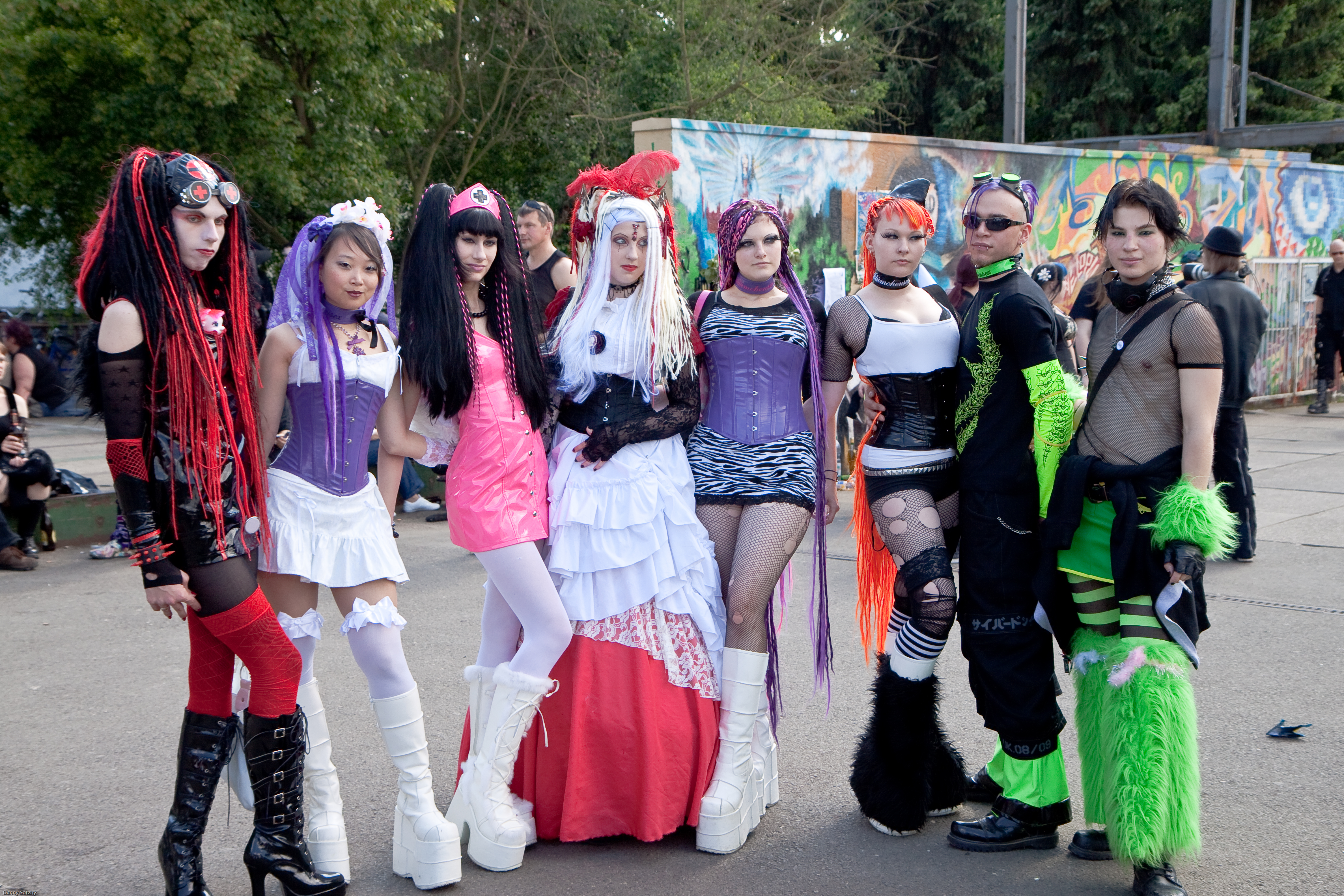 A group of cyber-goths at a festival